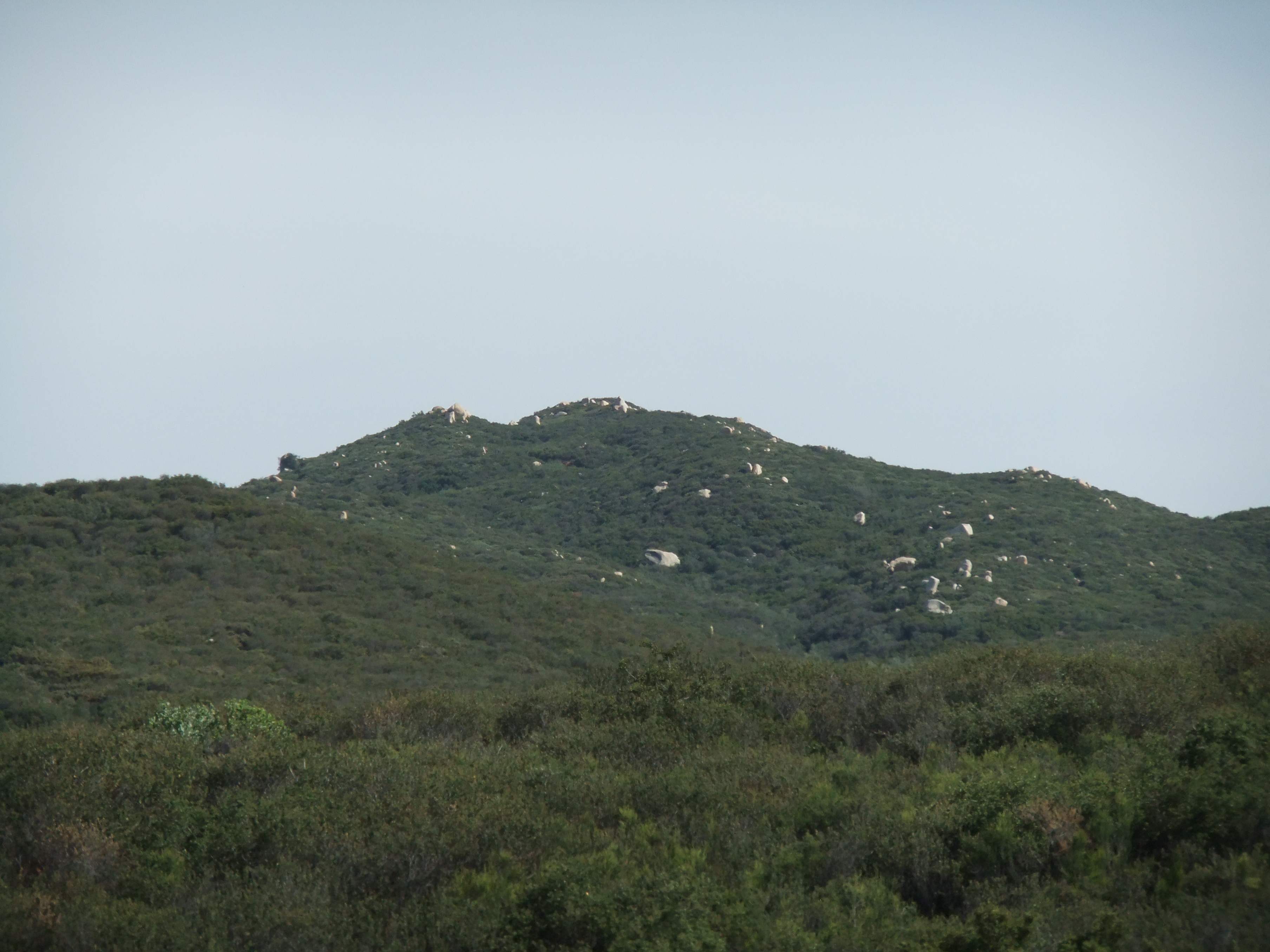 San Mateo Peak looking southwest from Morgan Trailhead. Tallest summit in Elsinore Mountains.